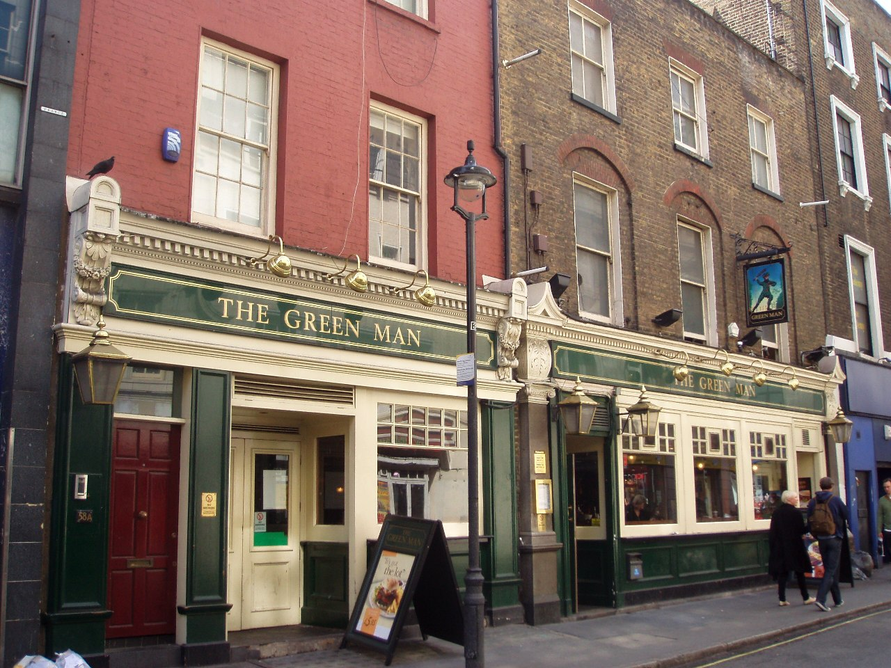 Large, busy pub just off Oxford St. Address: 57 Berwick Street. Owner: Mitchells and Butlers. Links: Randomness Guide to London Fancyapint Beer in the Evening Dead Pubs (history)